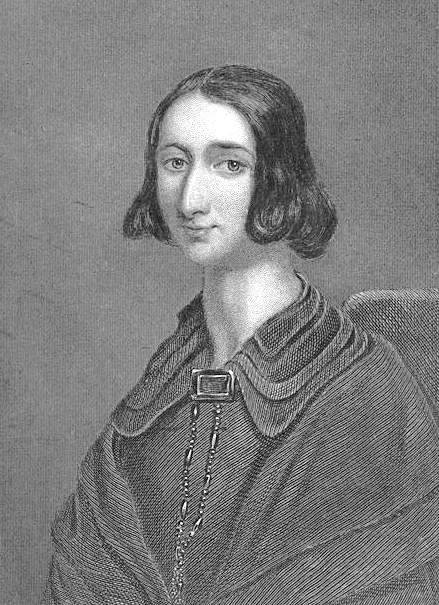 English writer Grace Aguilar (1816-1847).